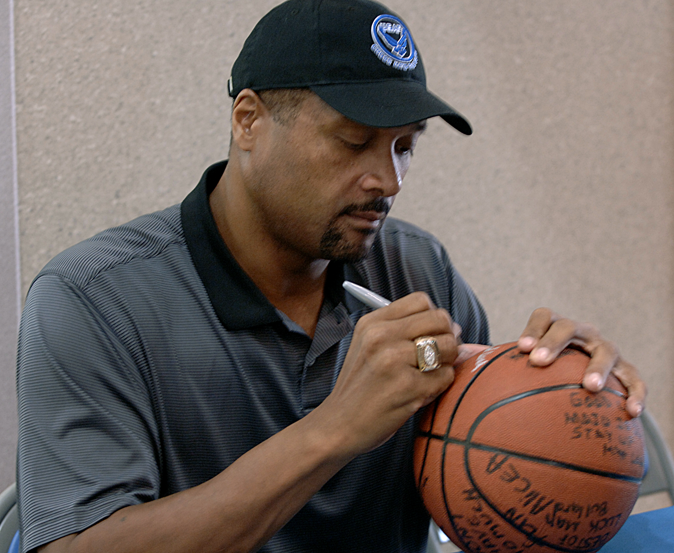 Mark May, American sports broadcaster and football analyst, former offensive lineman in the National Football League.